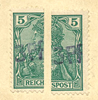 Two half-stamp provisoriums on-paper each overprinted "3 pf" for postage on SMS Vineta II (German empire), 1901.